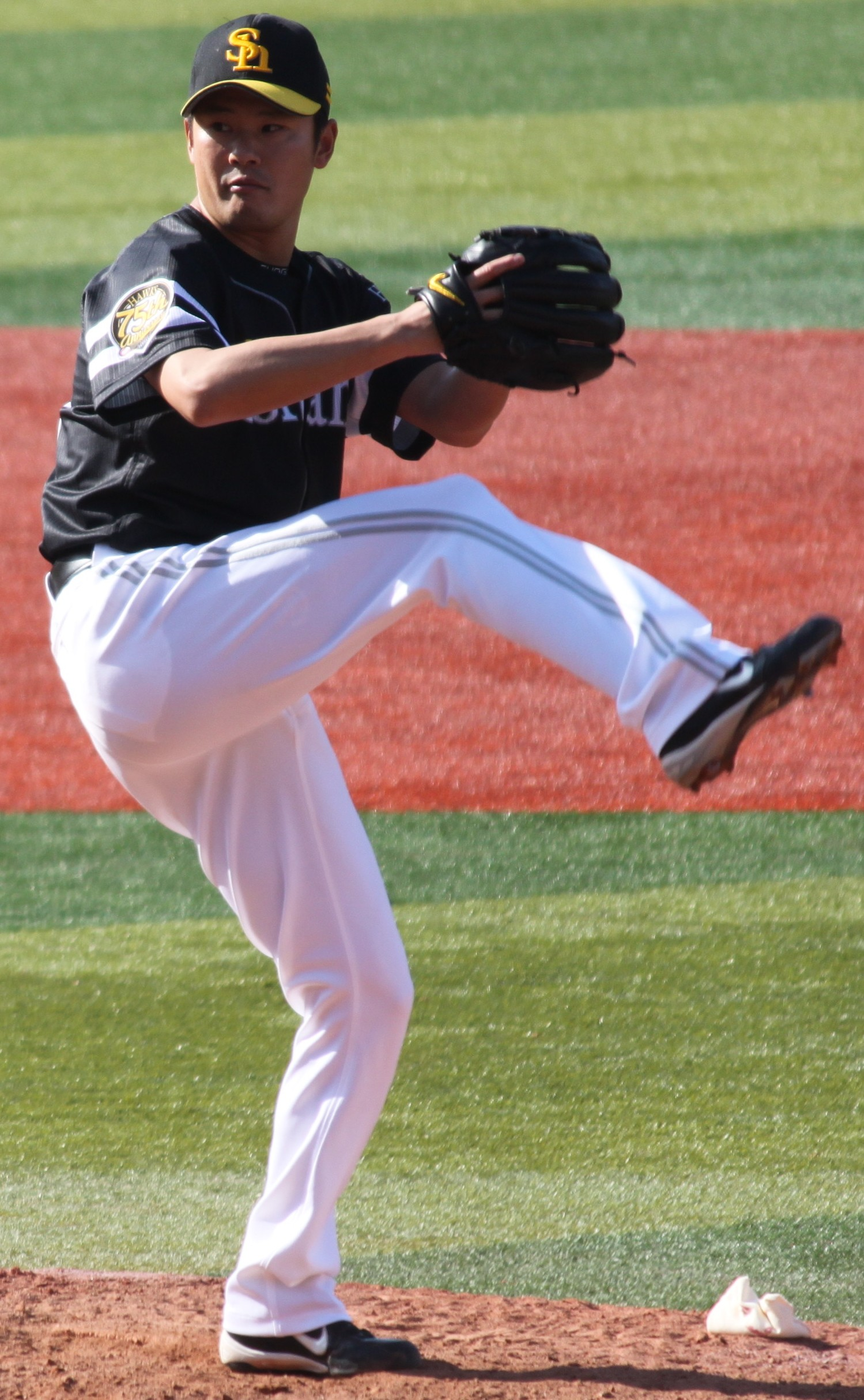 Shogo Yamamoto, pitcher of the Fukuoka SoftBank Hawks, at Yokohama Stadium.